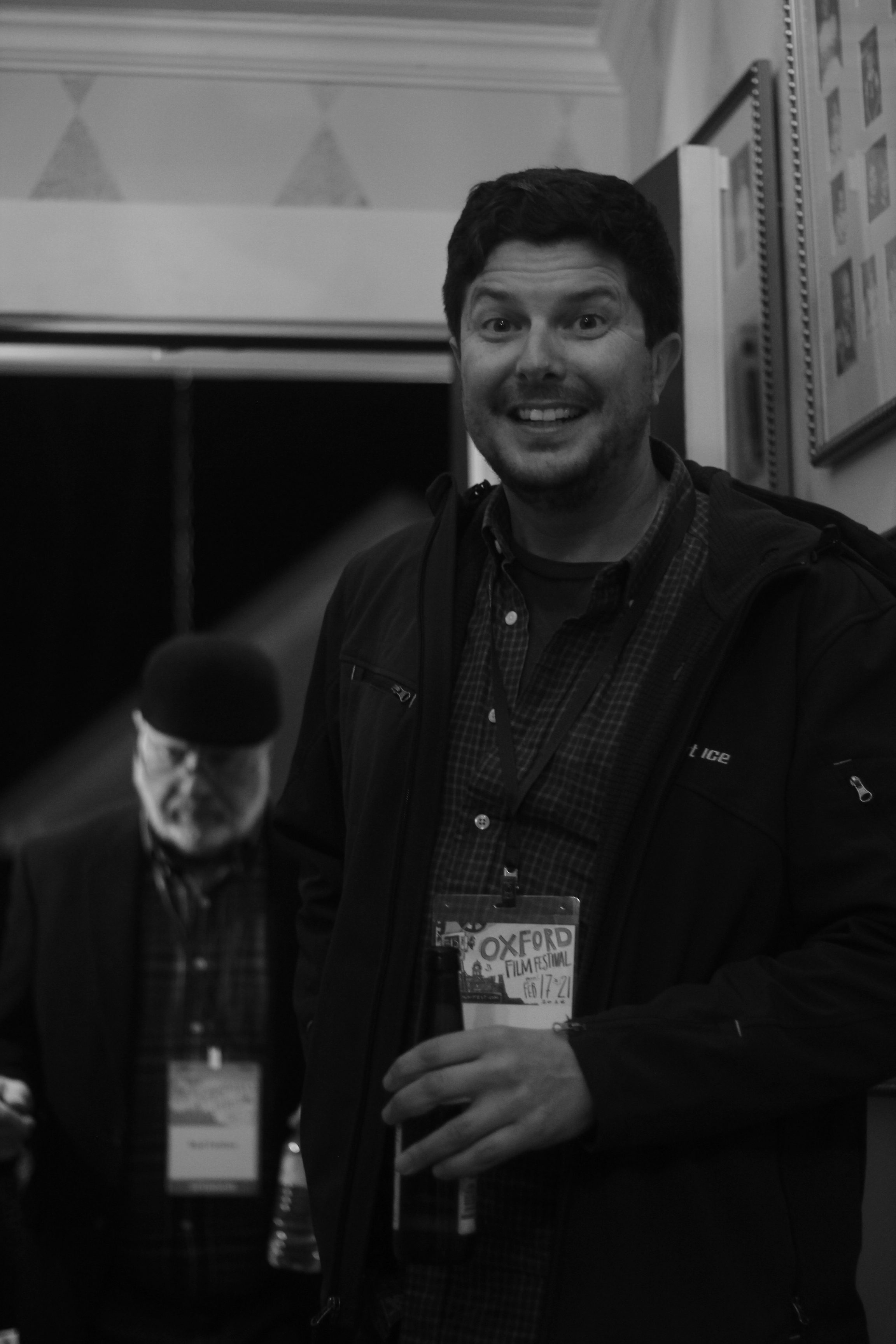 Kent Osborne at Oxford Film Festival, Oxford Mississippi. February 18, 2016